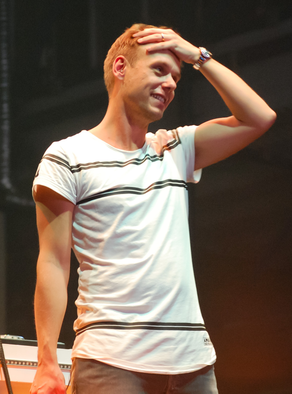 Armin Only Embrace @ IEC, Kyiv, Ukraine. 25.02.2017